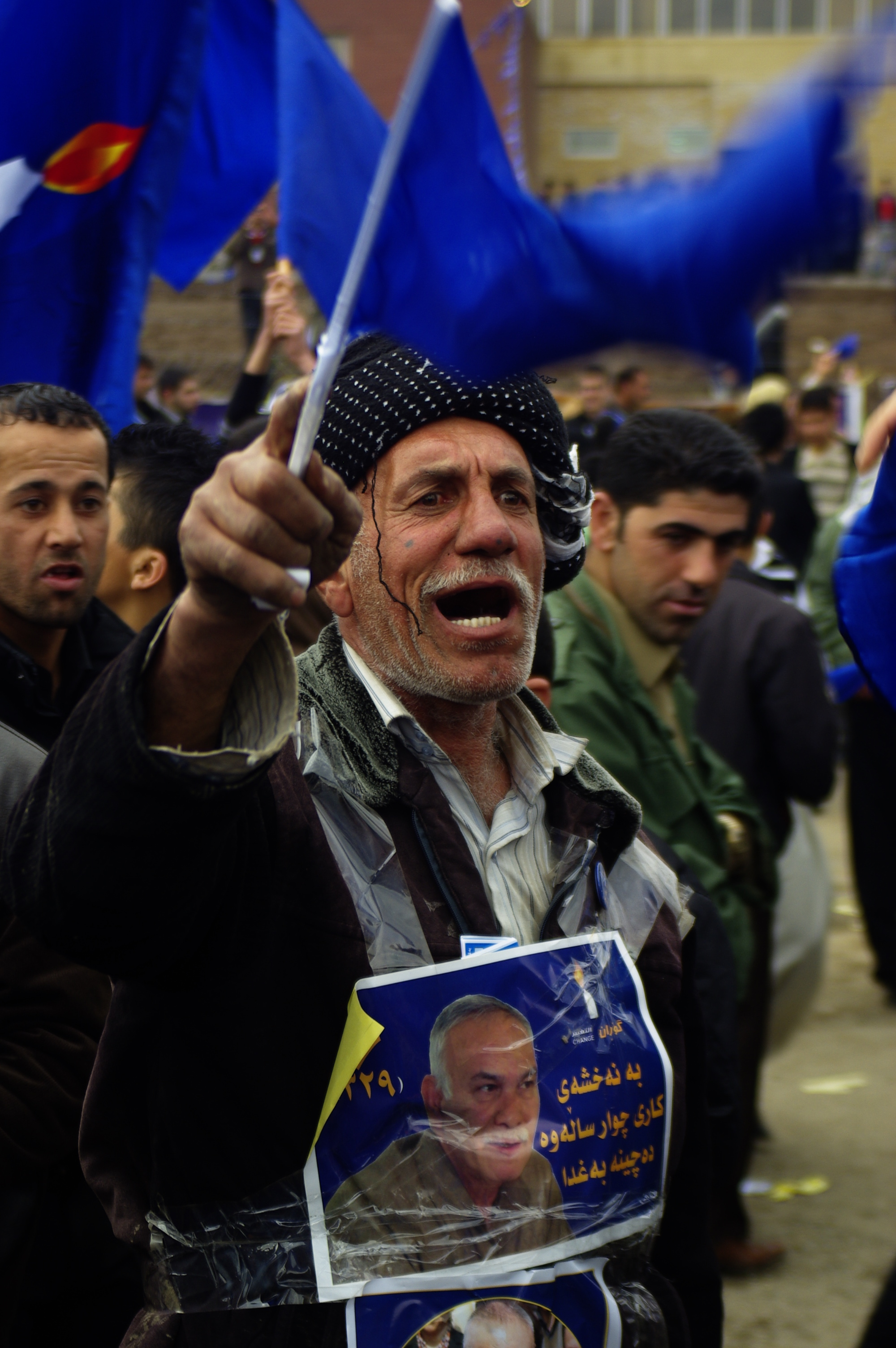 The relatively new Kurdish opposition party is bringing change to Kurdish politics. Read more about it here